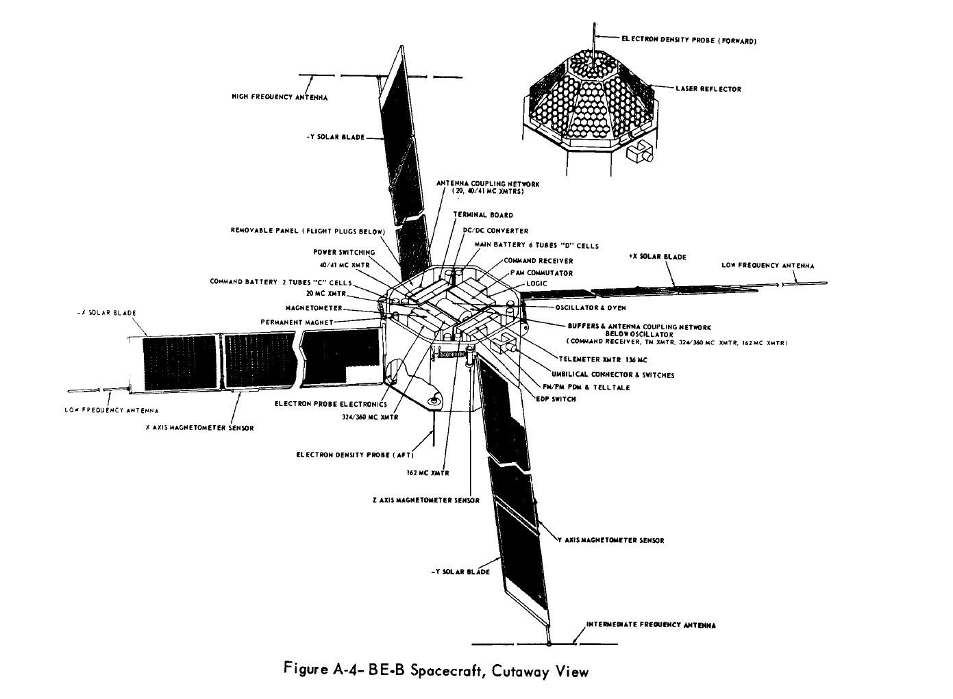 Cutaway view of the Explorer 22 spacecraft from Environmental test program of the beacon explorer spacecraft